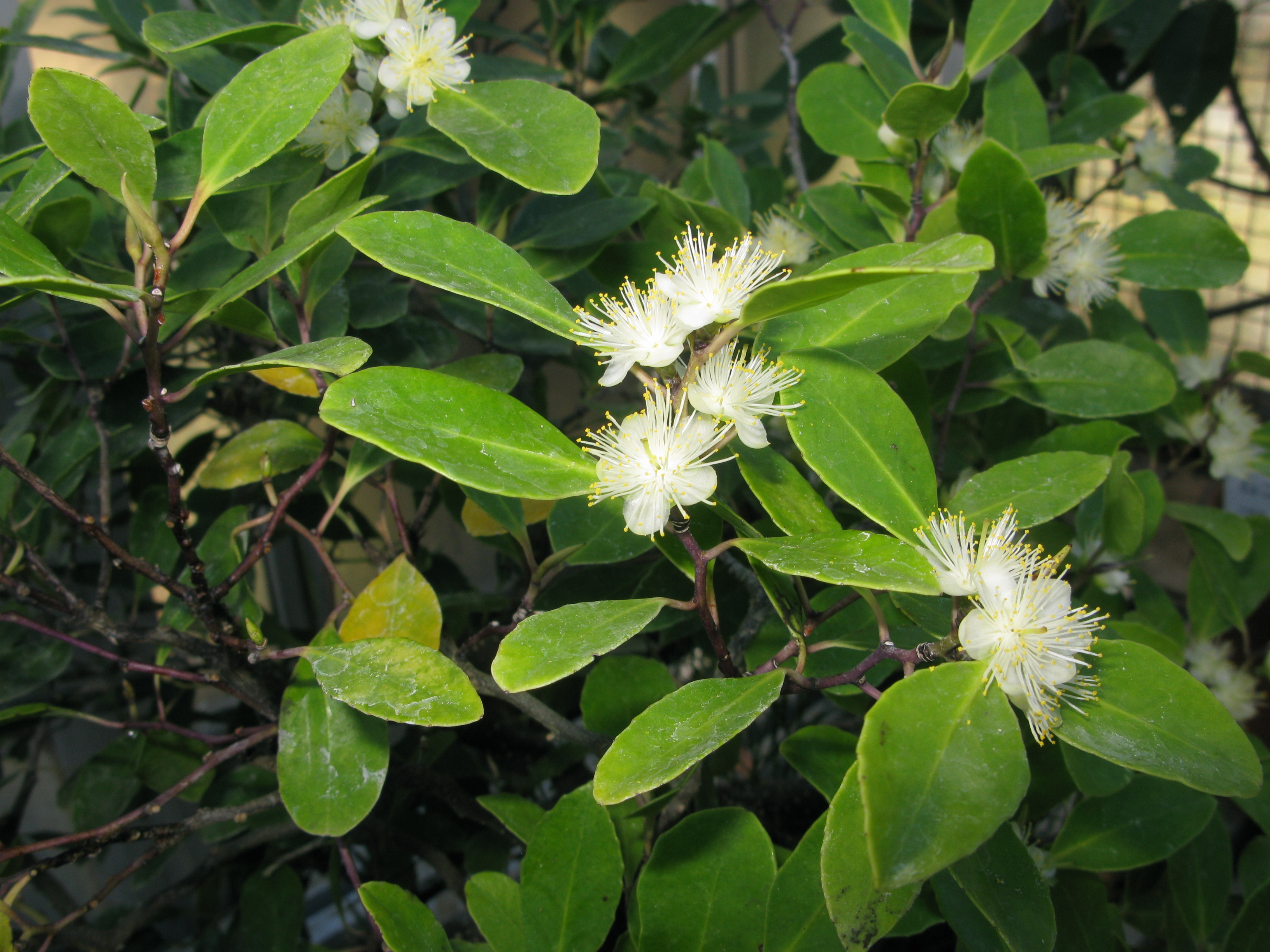 Symplocos pergracilis, Koishikawa, Botanical Gardens, the University of Tokyo, Japan